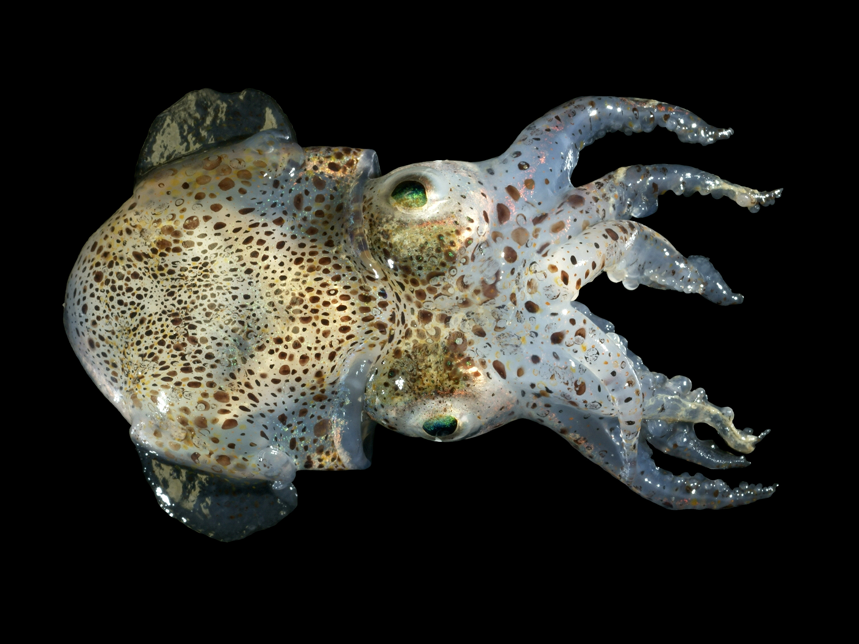 An Atlantic Bobtail from the Westdiep, Belgian continental shelf Picture taken on board of the RV Belgica, of a live specimen to preserve colour and structure of the chromophores. The animal was released after the picture was taken. Mantle length: ≈ 20 mm Total length: ≈ 40 mm